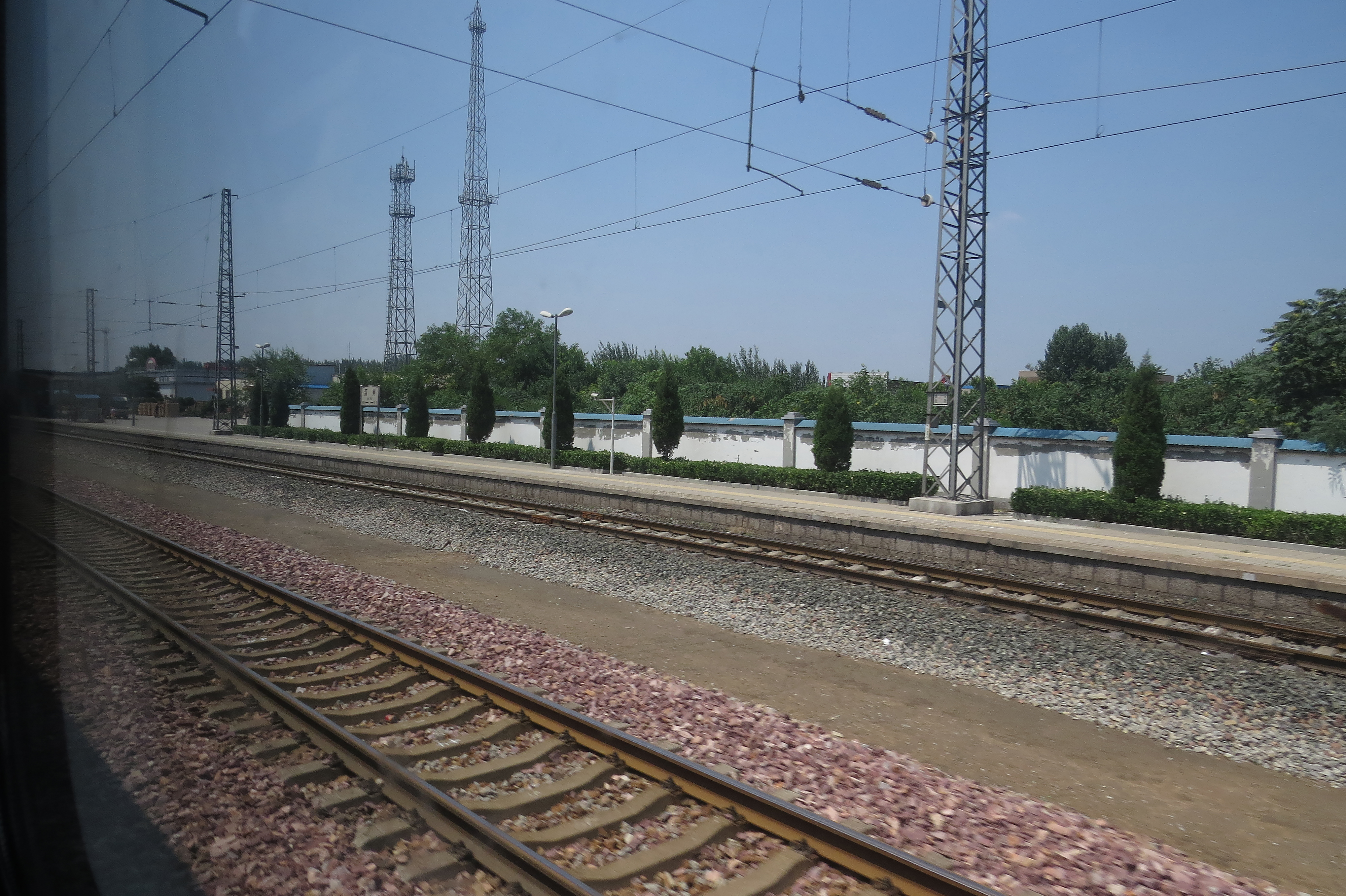 This is Shen-Zhou instead of Shen-Zhen.